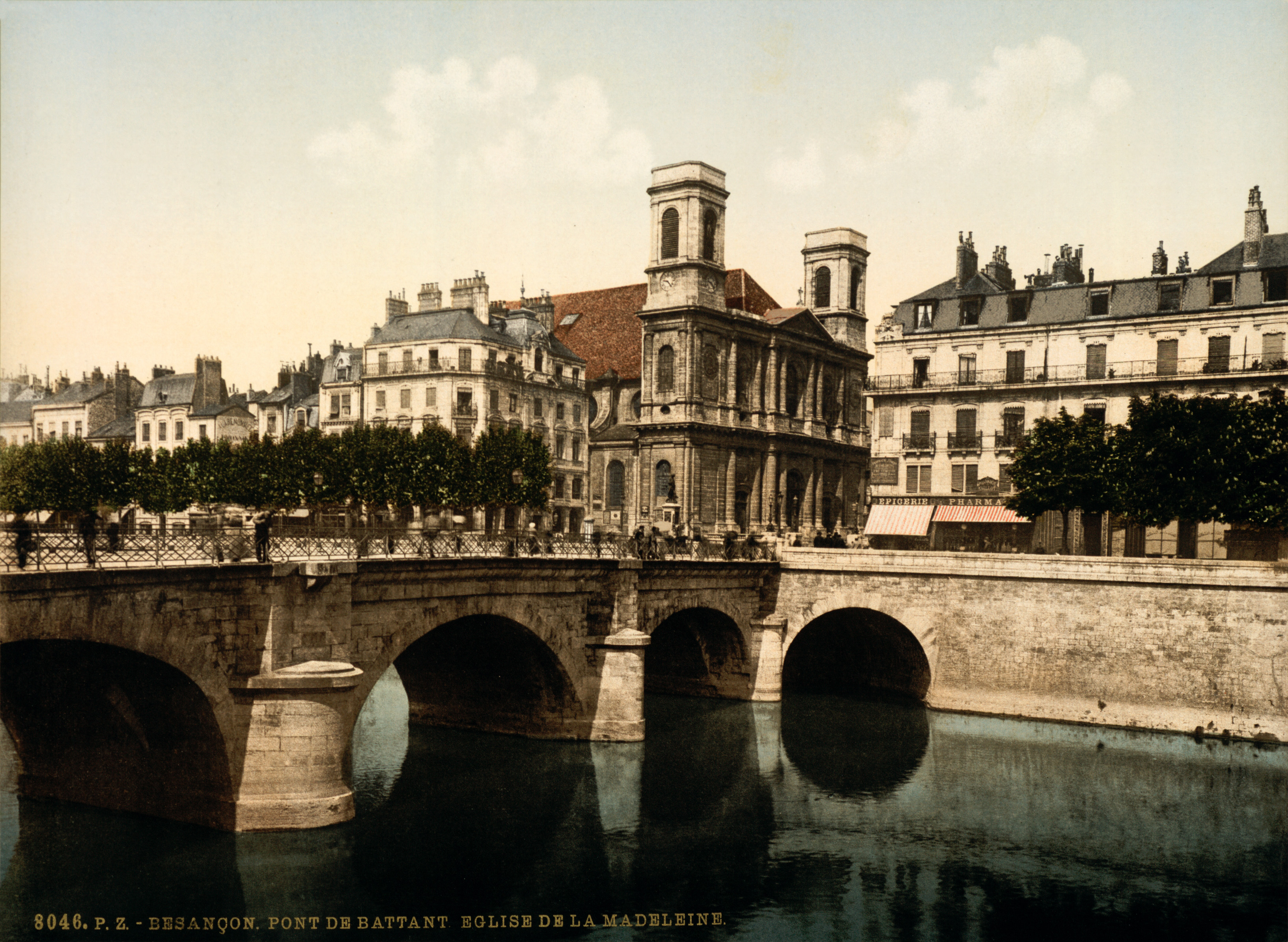 8046 P.Z. Besançon, Pont de Battant, Eglise de la Madeleine . Photochrom print by Photoglob Zürich, between 1890 and 1900. From the Photochrom Prints Collection at the Library of Congress More photochroms from France | More photochrom prints [PD] This picture is in the public domain